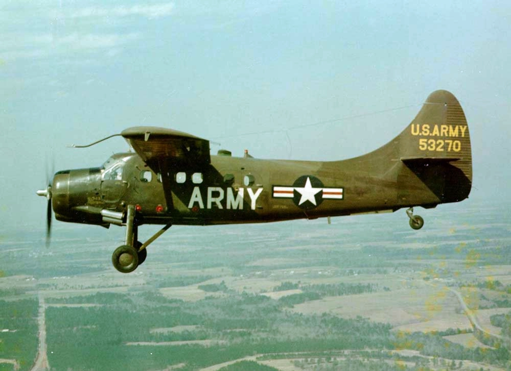 A U.S. Army DeHavilland U-1A-DH Otter (s/n 55-3270) in flight. This aircraft is today on display at the U.S. Army Transportation Museum, Fort Eustis, Virginia (USA).